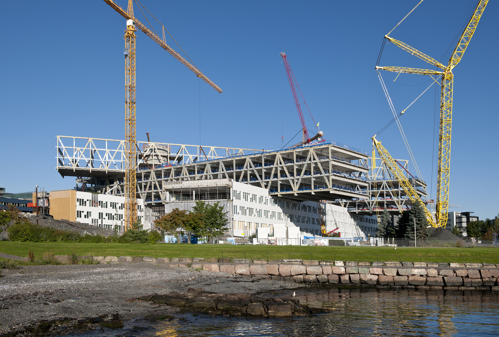 Statoil under bygging på Fornebu, Oslo